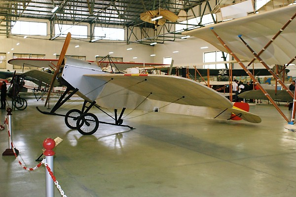 Nieuport IVG of the pre-Civil War Aeronautica Espanola (AE), 4/10.